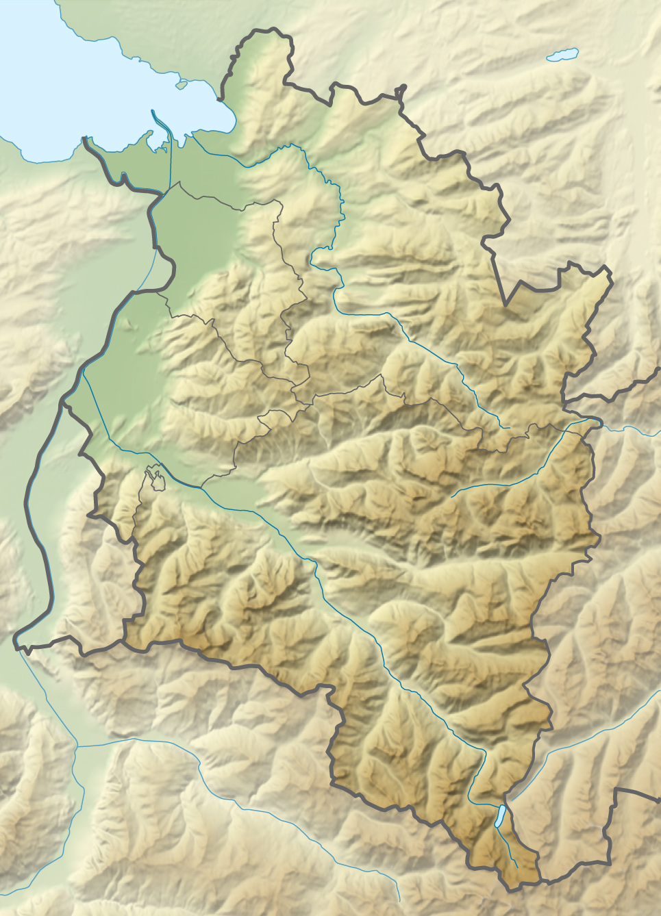 Location map of Vorarlberg Equirectangular projection. Geographic limits of the map: N: 47.62 N S: 46.82 N W: 9.45 E E: 10.3 E